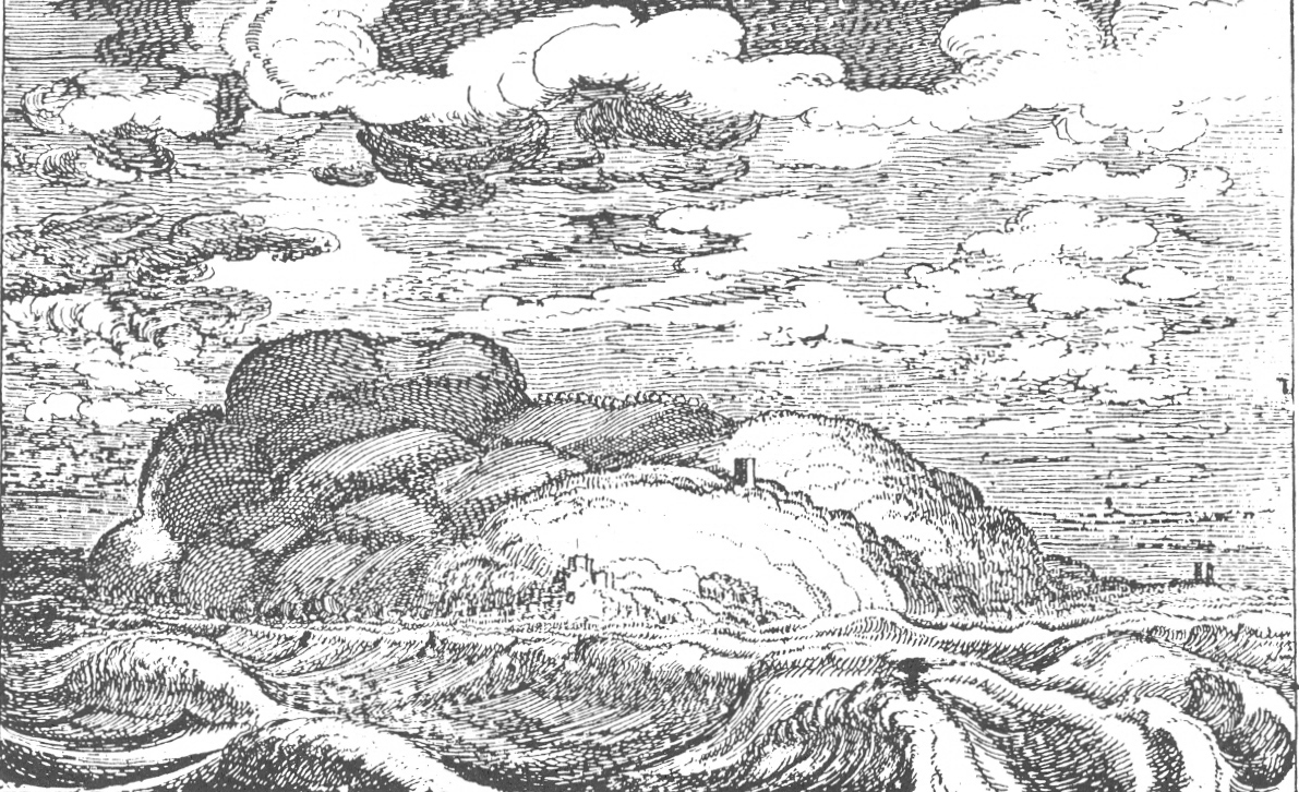 The lighthouse at Kullen the year 1615